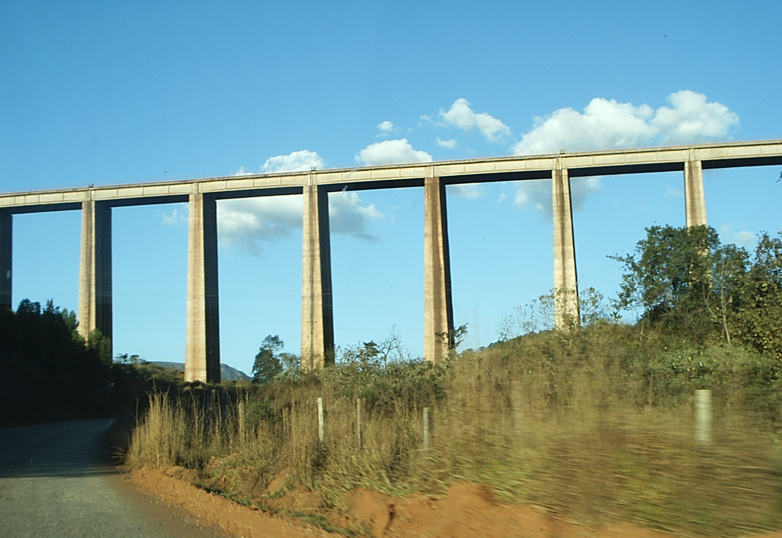 Gerdau-Acominas Bridge - Ouro Branco, Minas Gerais, Brazil